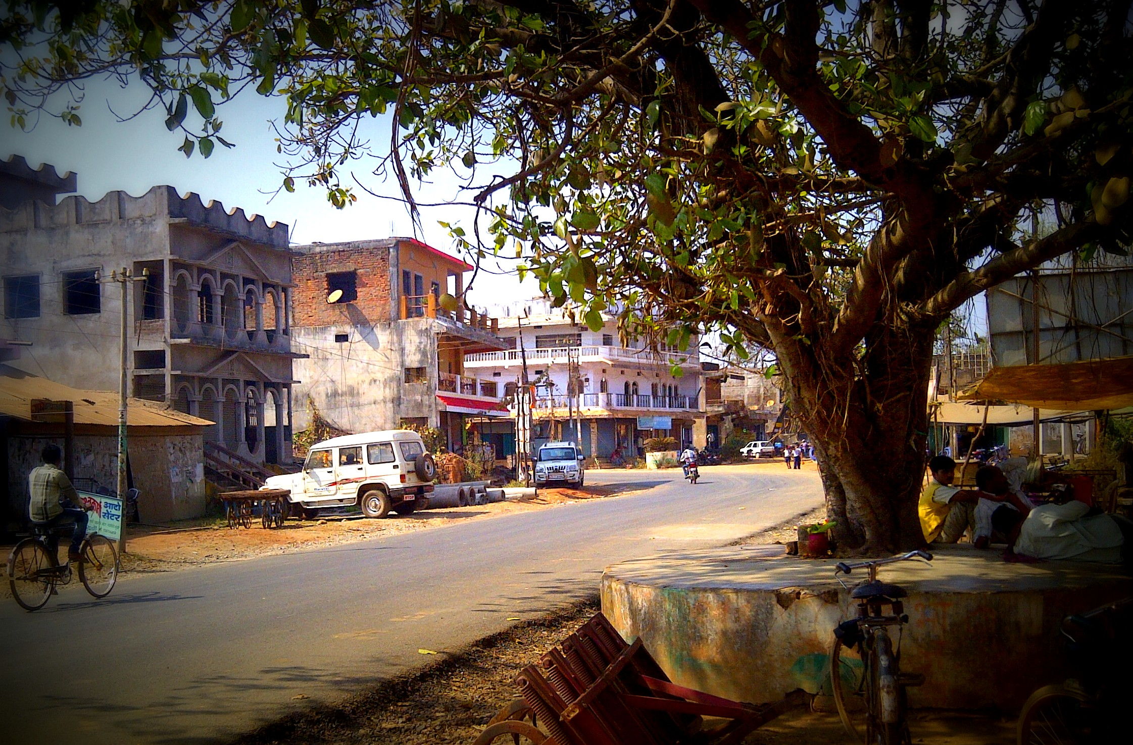 A view from State Highway 25 at Netaji Chowk, Kapsi